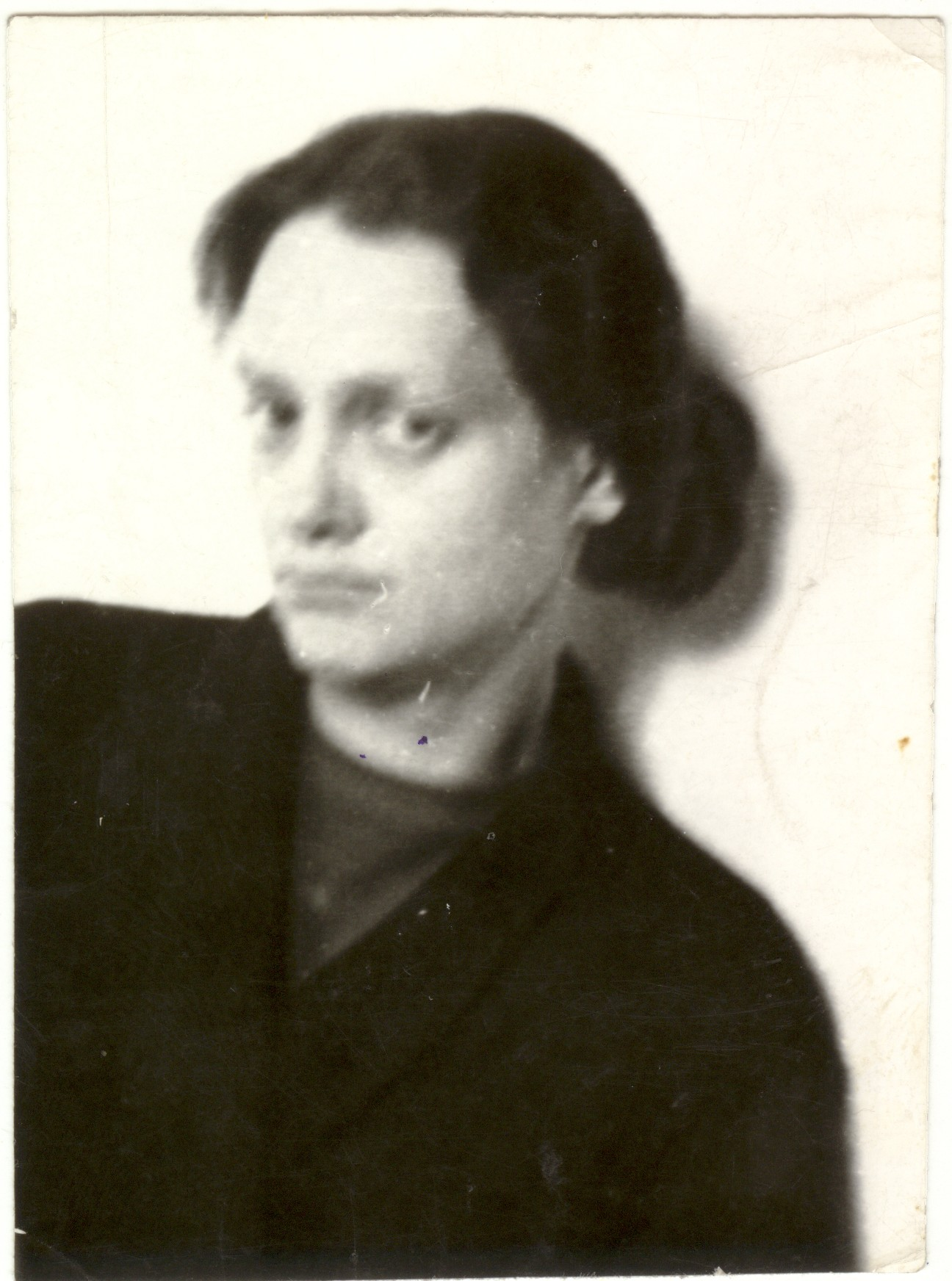 Ilka Gedő in 1960